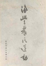 This is the cover of the book written by Peng Pai (彭湃) in 1926, titled "Reports on the Haifeng Peasant Movement". The title's Chinese Characters were handwritten then by Zhou Enlai (周恩来).